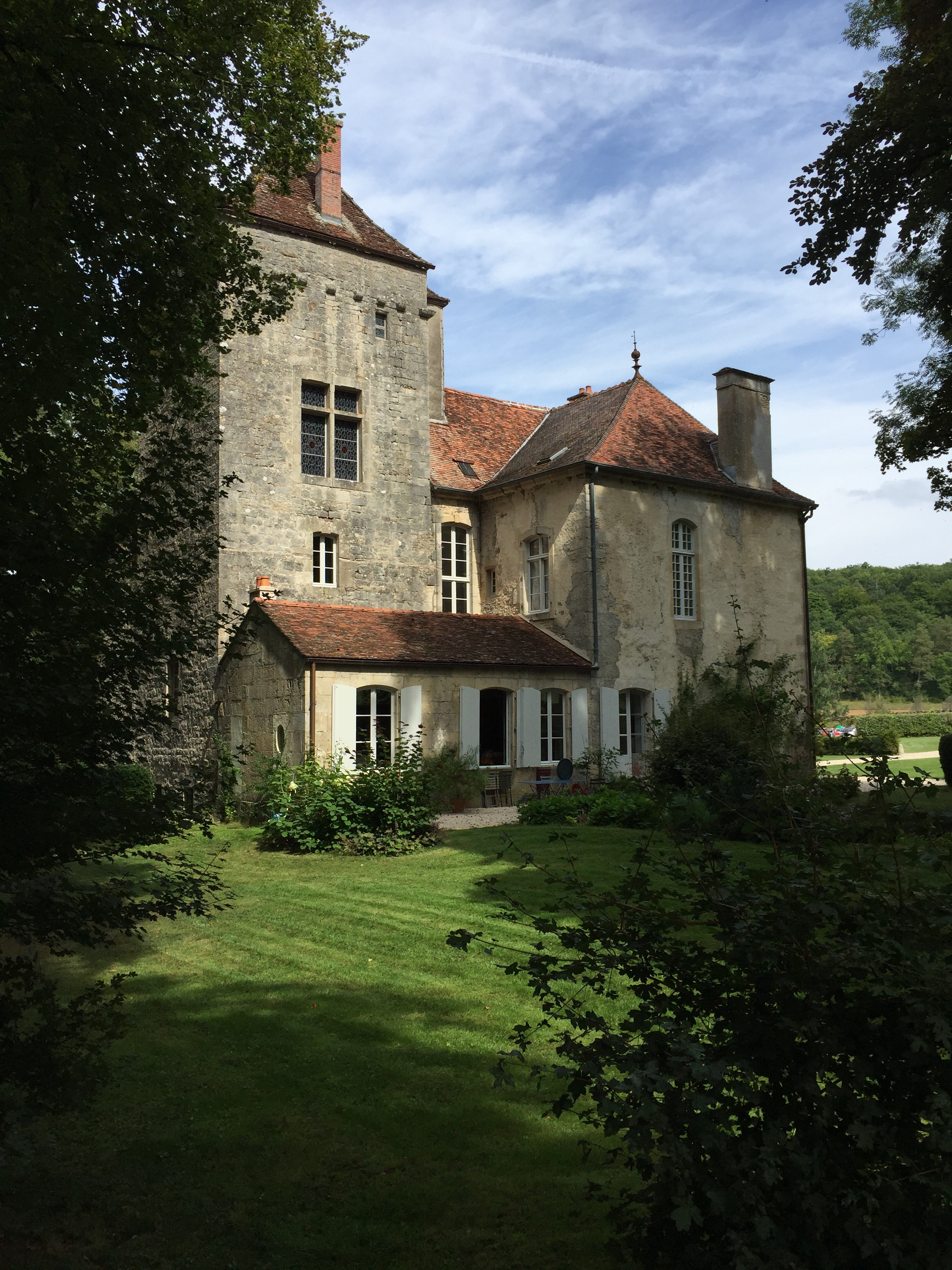 Quemigny face Sud